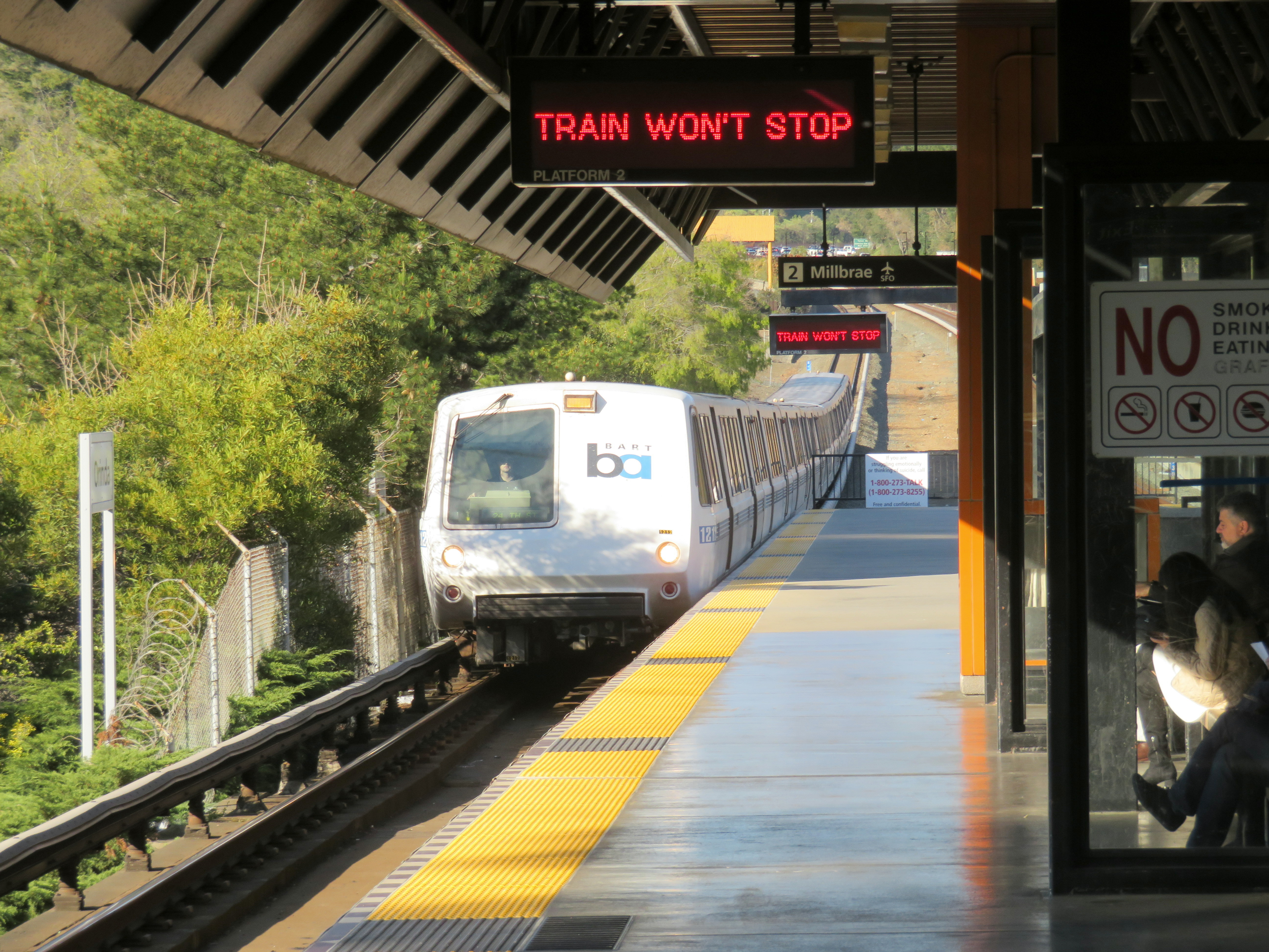 A westbound train passing through Orinda station in March 2018. During rush hours, BART runs short turn trains to/from Pleasant Hill station that skip several stops in the reverse-peak direction.